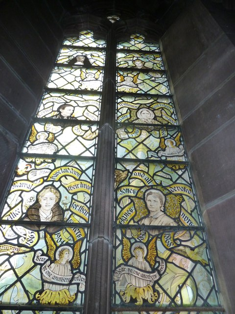 Photograph of the 'Noble Women' window in Liverpool Cathedral